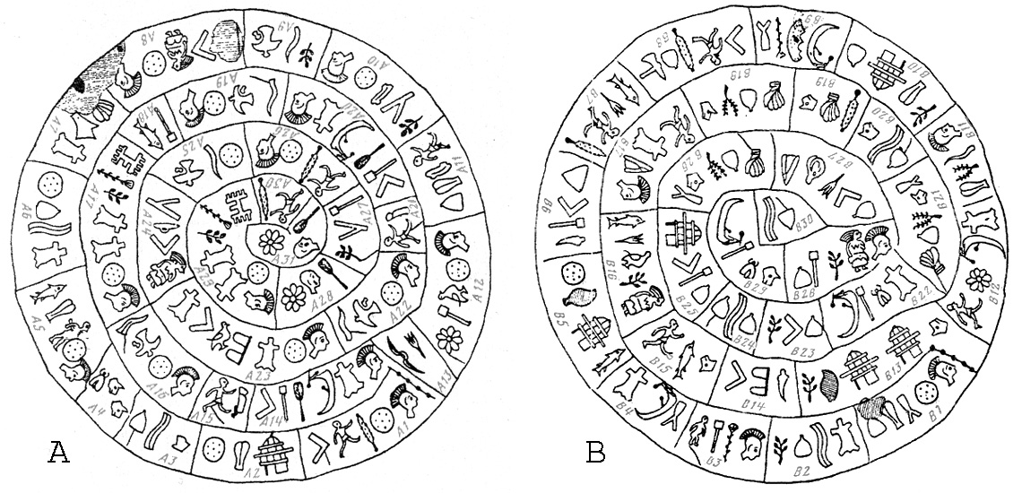 Category:Phaistos disk